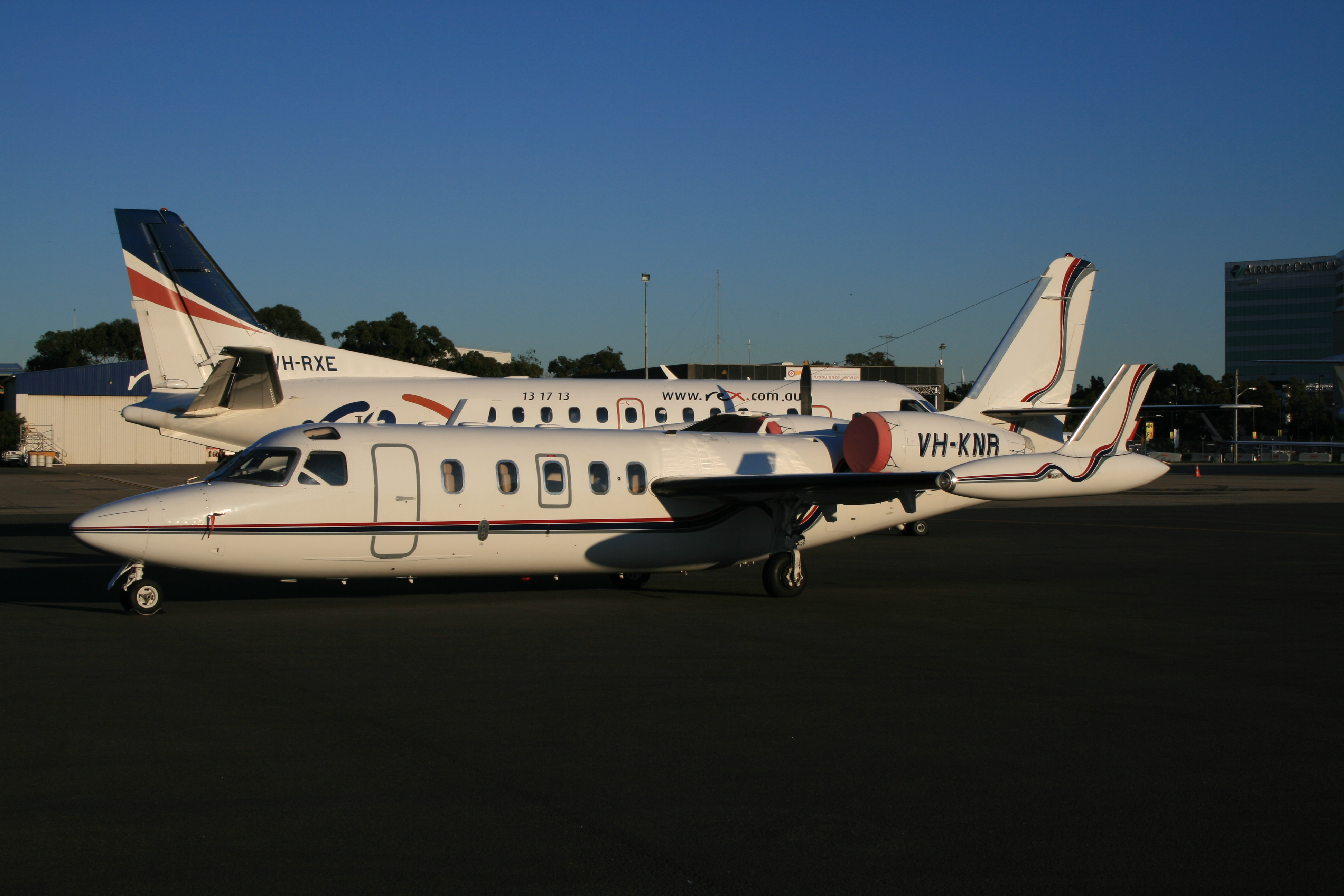 Israeli Aircraft Industries Westwind II parked at Sydney's Kingsford Smith International Airport. The main visual difference between the Westwind and Westwind II is that winglets are fitted to the Westwind II.